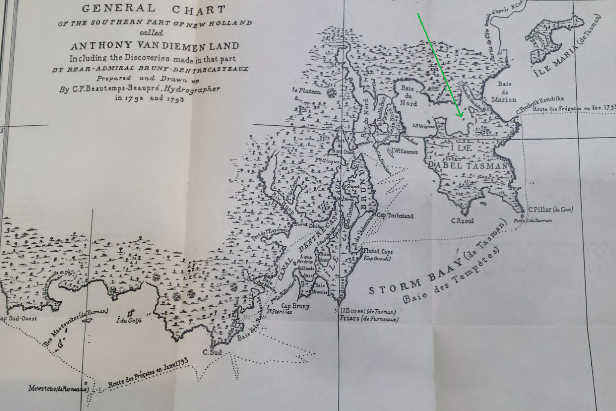 The map produced by the D'Entrecasteaux 1793 expedition to south east Tasmania. The green arrow indicates Smooth Island.